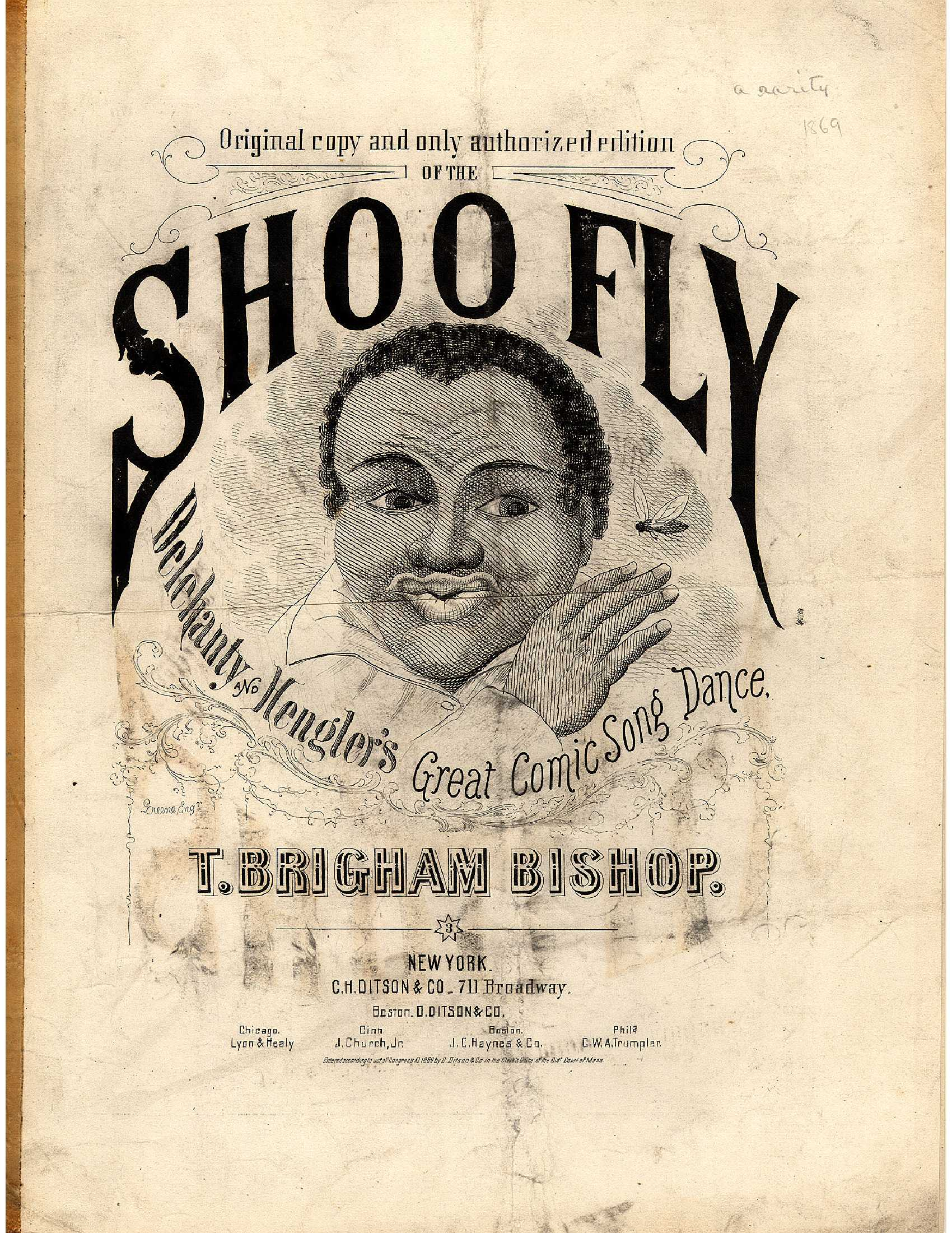 Cover of the 1869 sheet music publication of "Shoo Fly," also known as "Shoo Fly, Don't Bother Me"